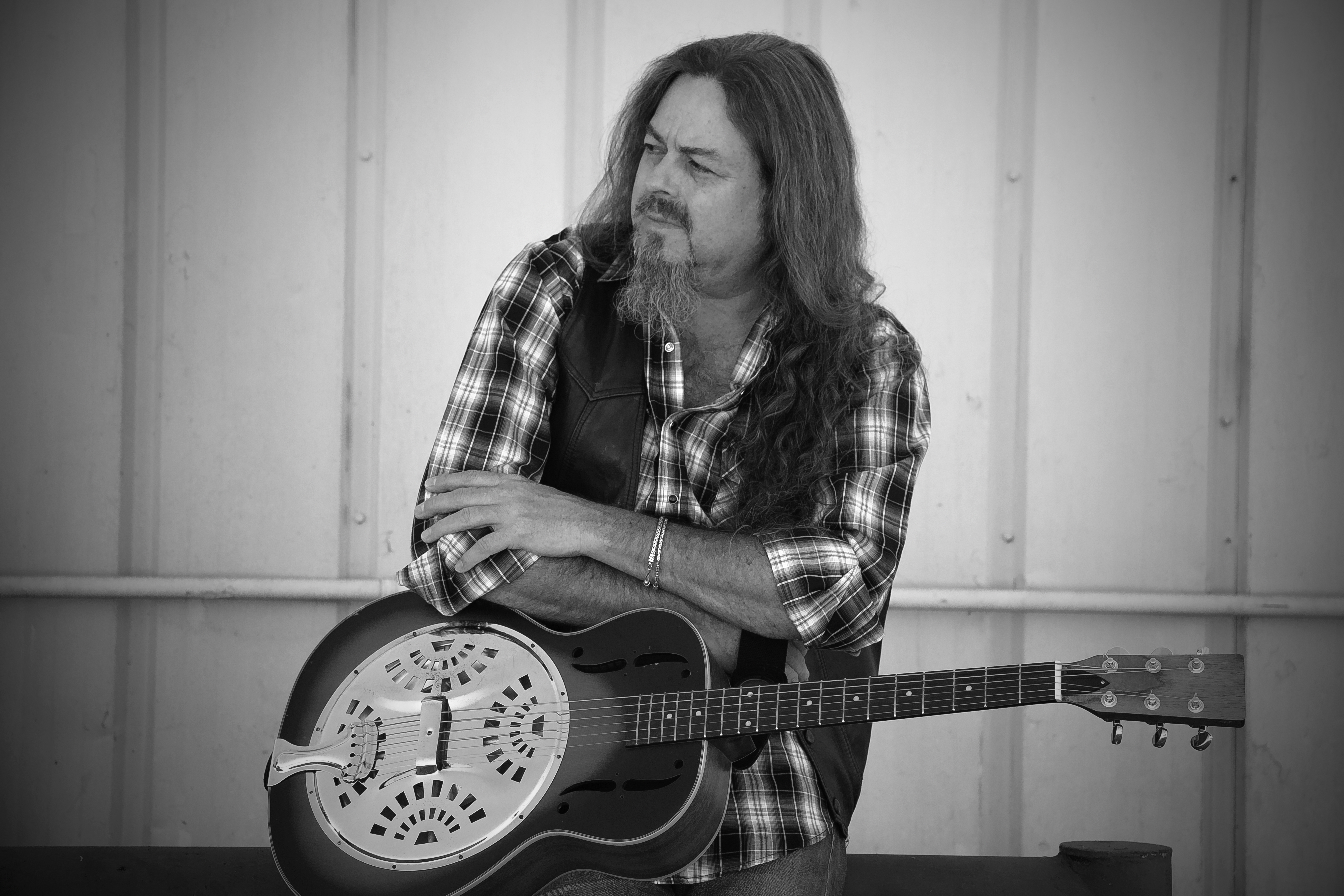 Photo of musician Cletis Carr, created October 2016, near Arlington Texas